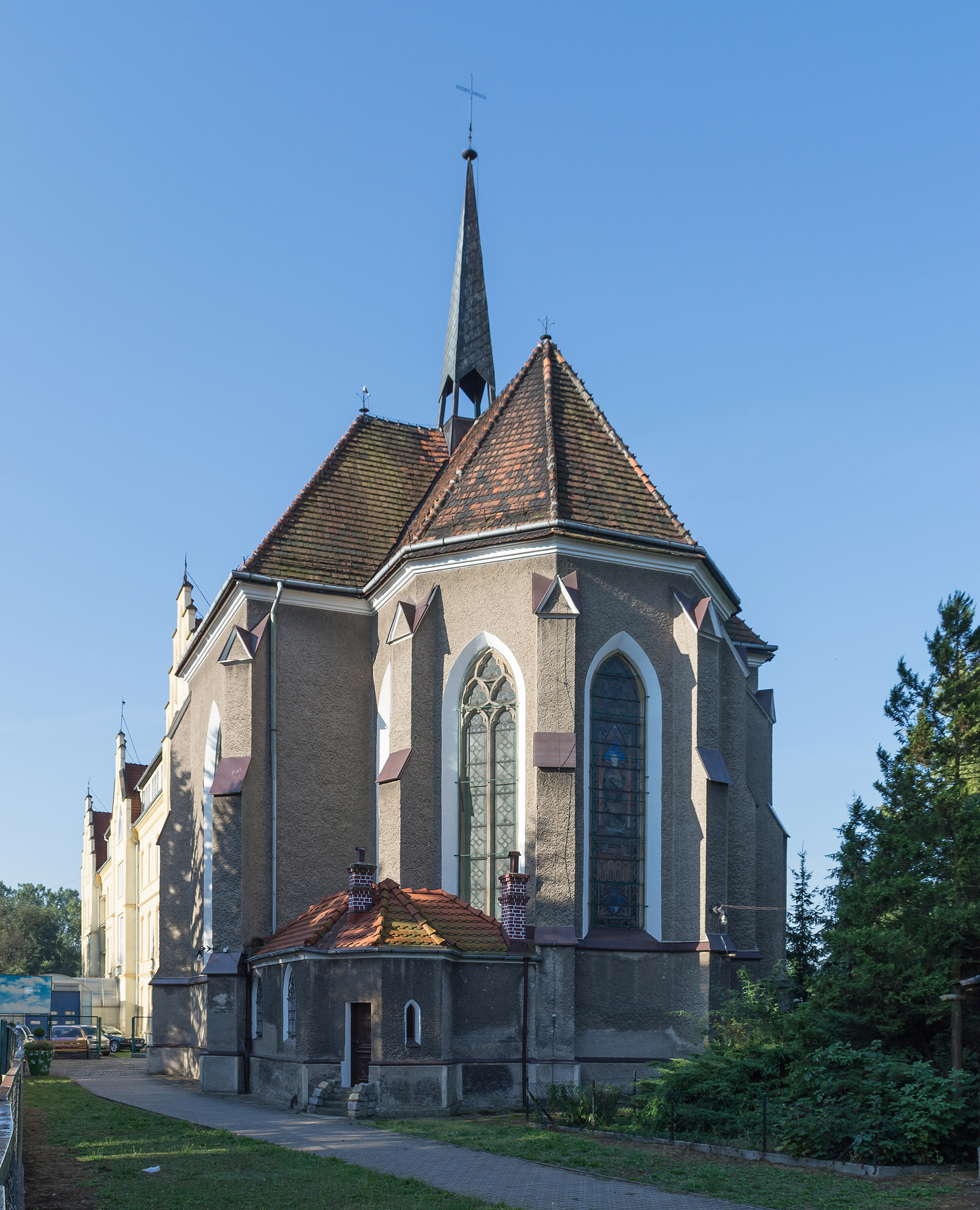 Church of the Immaculate Conception in Kłodzko